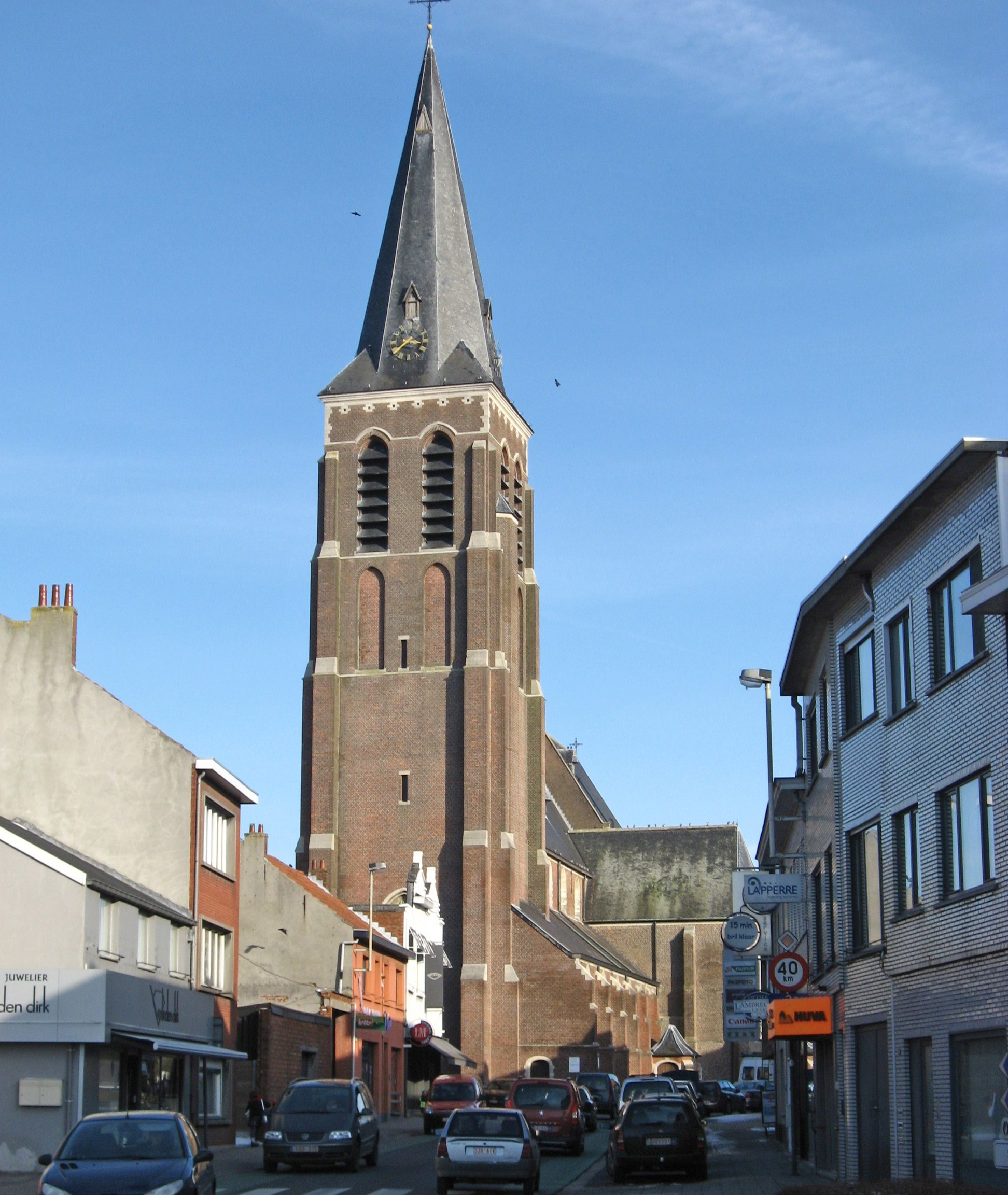 Church of Brecht, Sint Michael